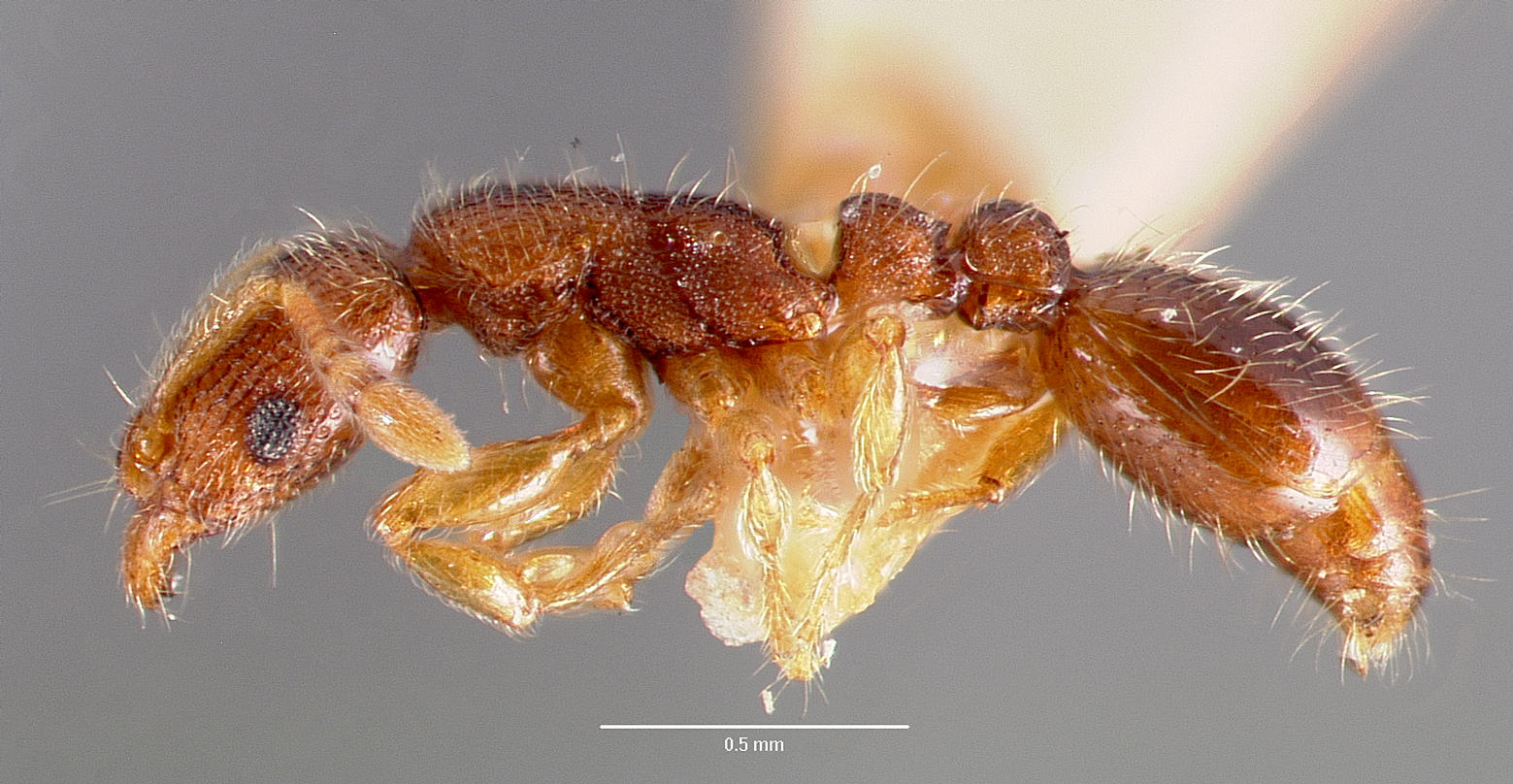 Profile view of ant Vollenhovia emeryi specimen casent0006098.